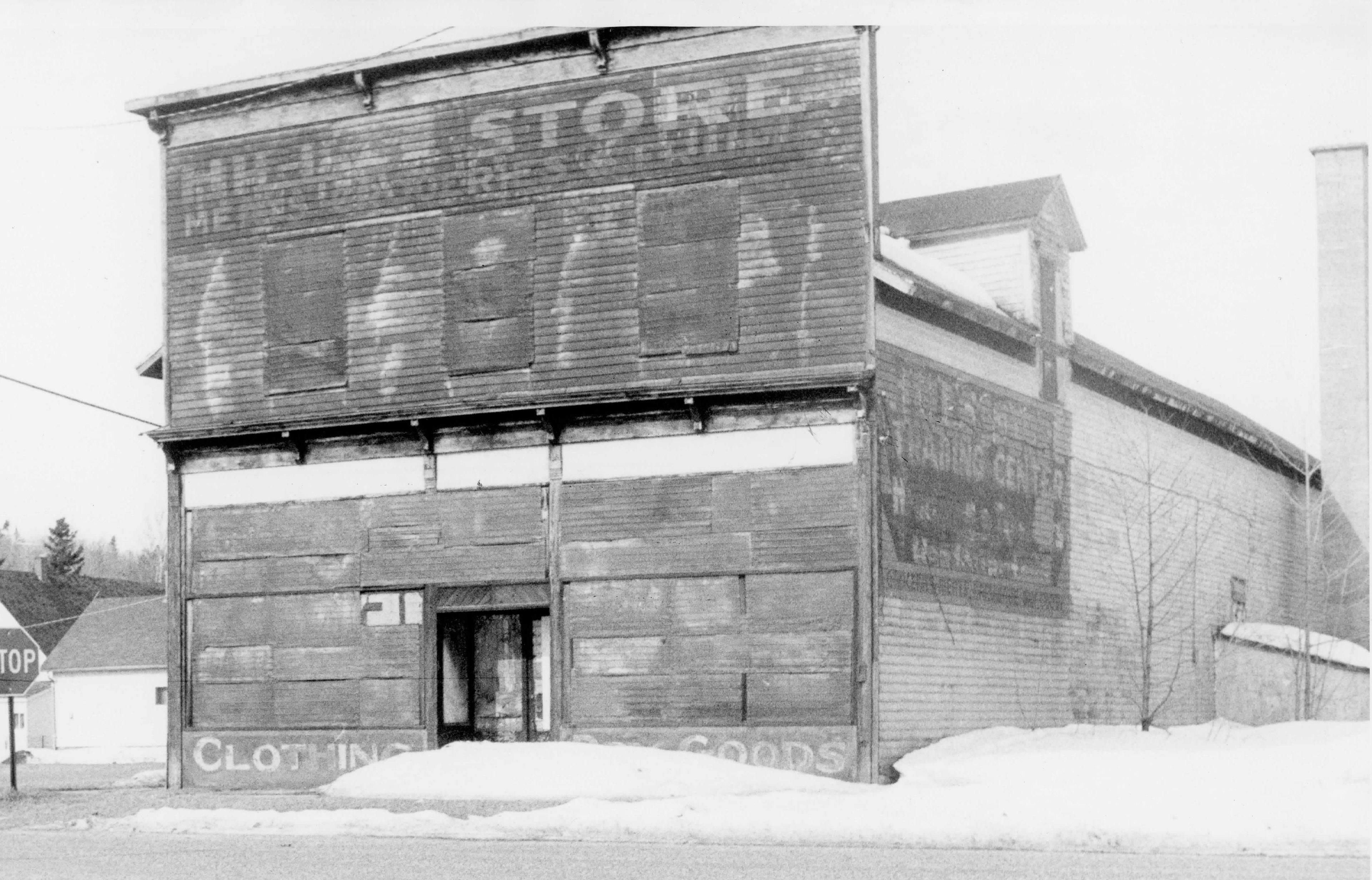 Hills store Grand Marais